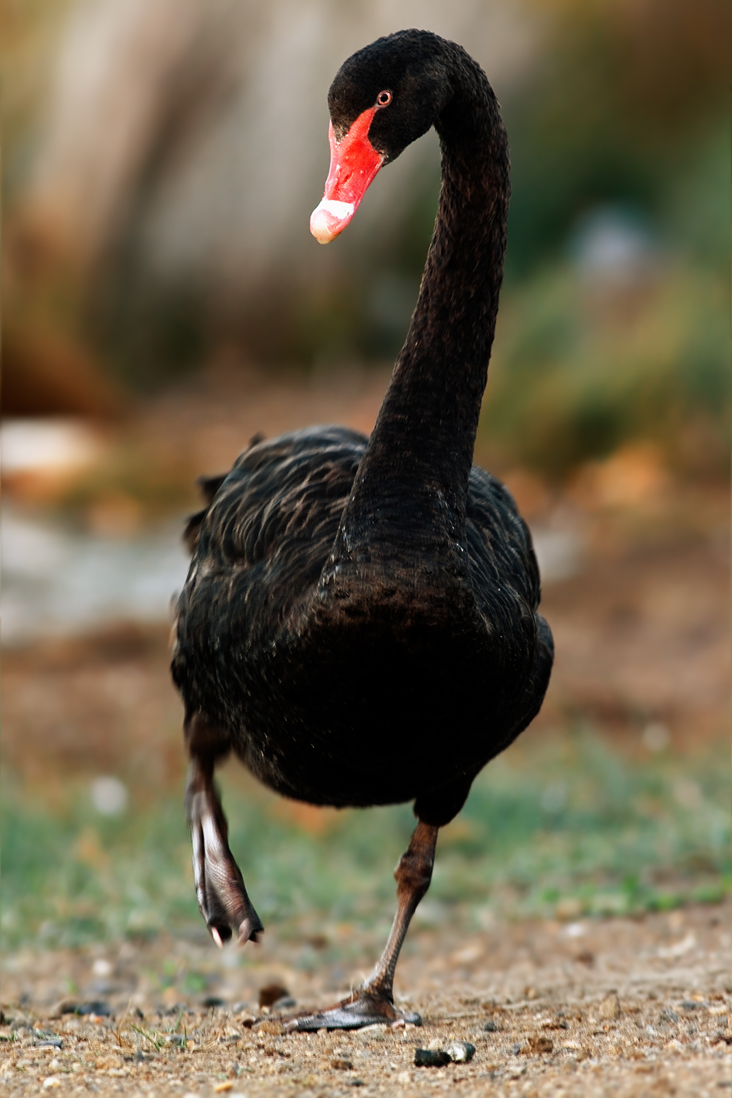 Black Swan, Claremont (Cygnus atratus), Tasmania, Australia Camera data Camera Canon EOS 400D Lens Canon EF 400mm f5.6L Focal length 400 mm Aperture f/7.1 Exposure time 1/30 s Sensivity ISO 400